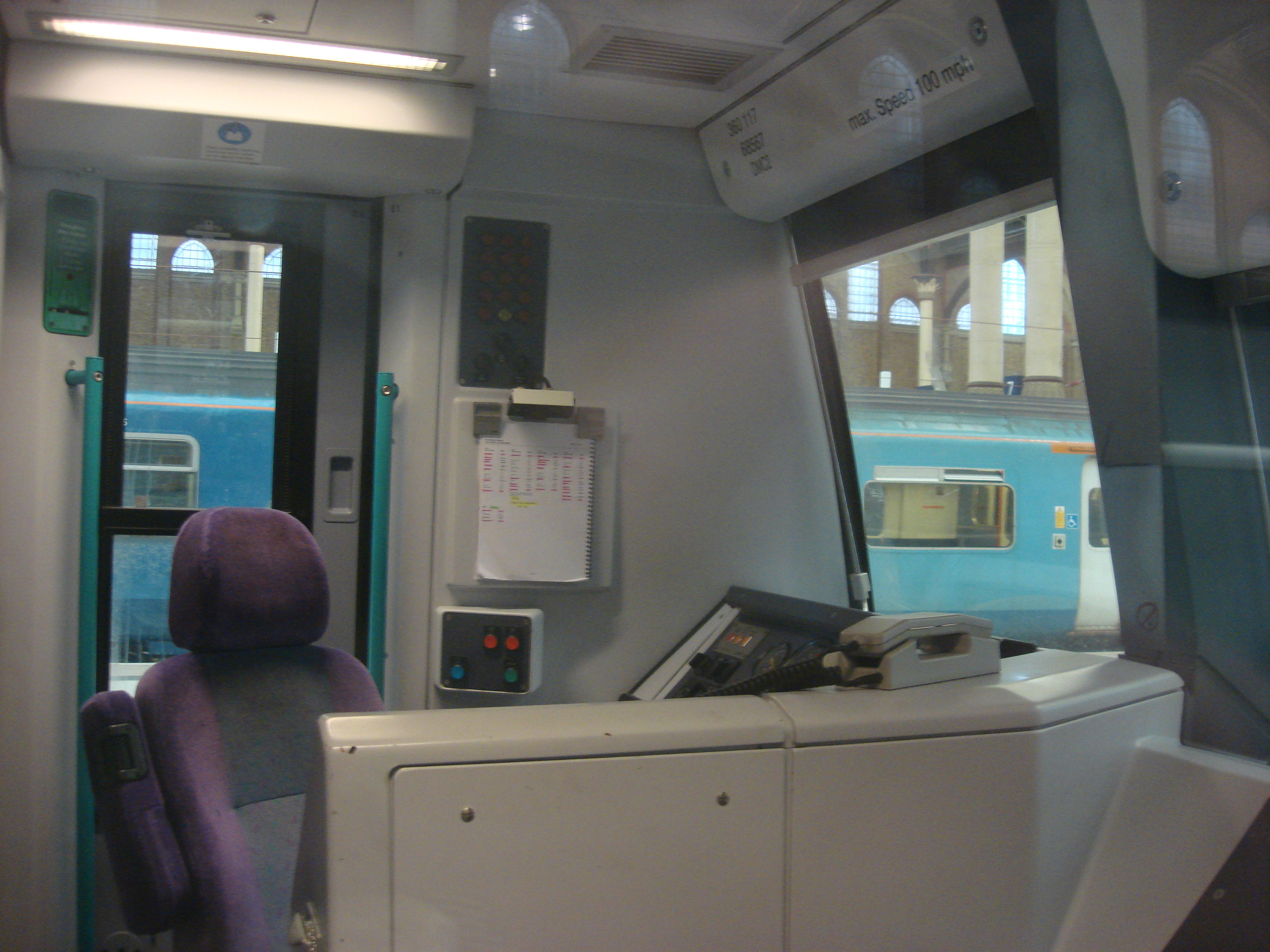 Driving position of number 360117 at Liverpool Street